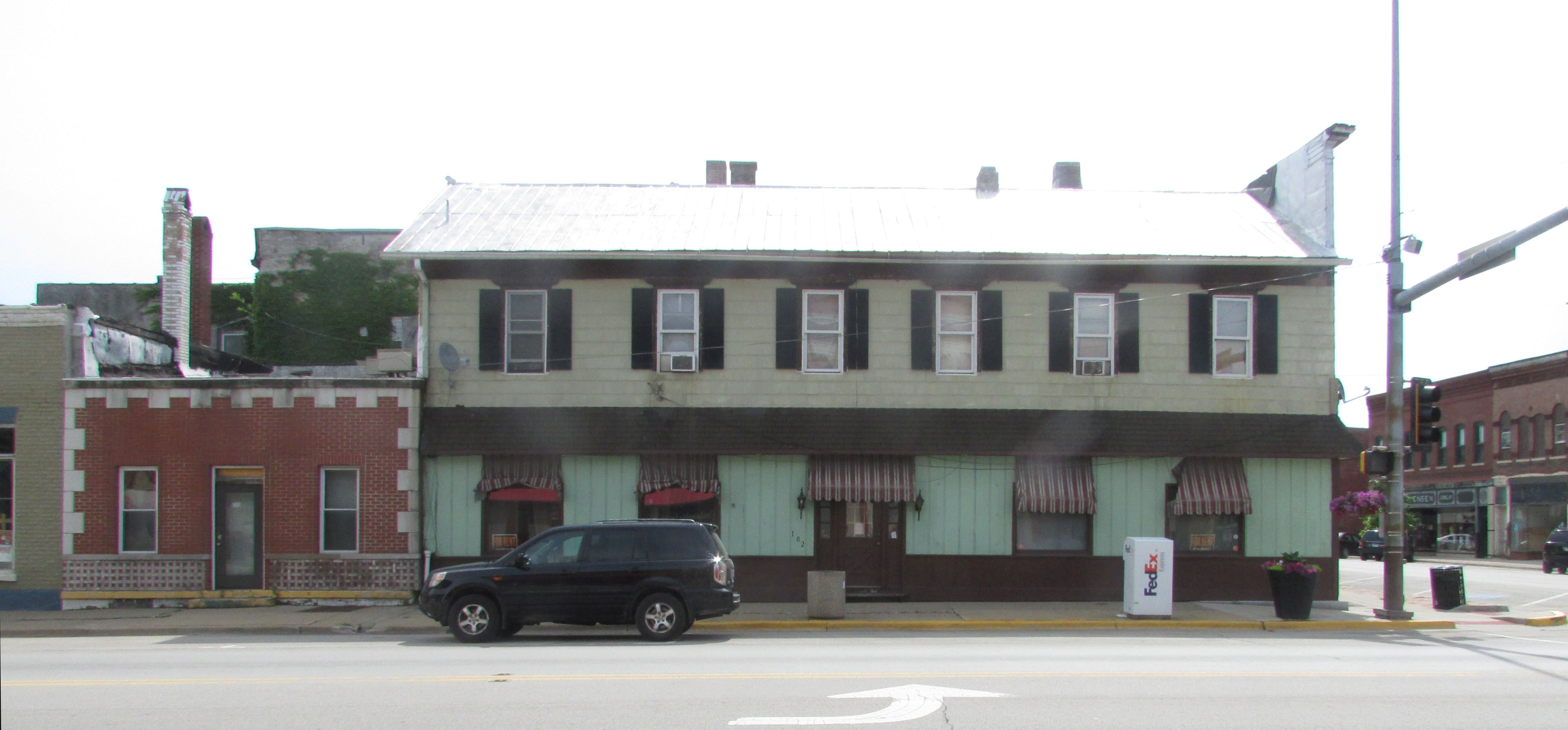 The Lunchroom Building, Momence, Illinois.